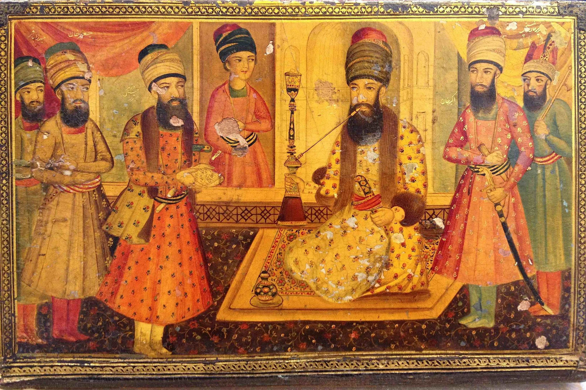 Ṣādiq Khān surrounded by his family and courtiers. Early 19th century